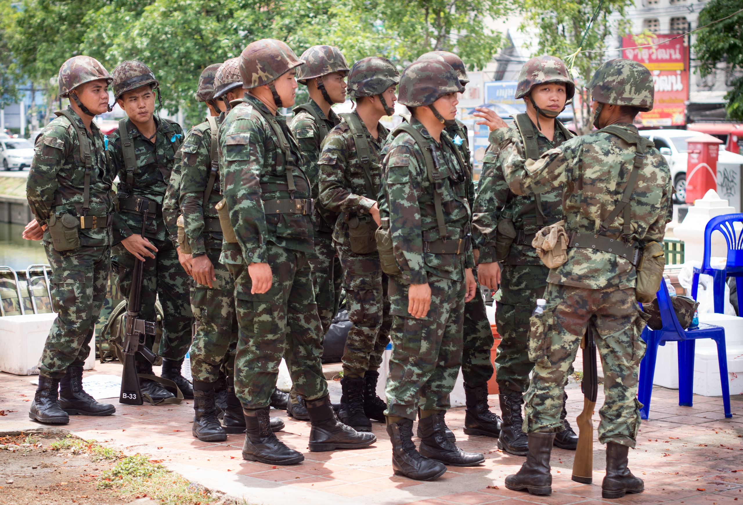 Thai military at Chang Phueak Gate in Chiang Mai.